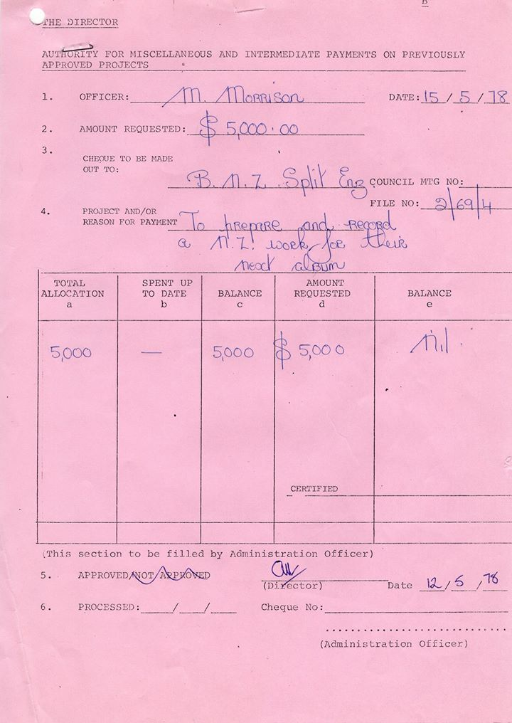 In the English spring of 1978 Split Enz were in a bit of strife having been dropped by their UK record label. They were in need of help and sought funding from the Queen Elizabeth II Arts Council of New Zealand to help with living costs. Thankfully the New Zealand government were one step ahead of the situation in seeing the potential of the band and rightly approved $5000 to go to Split Enz. Archives New Zealand Reference: AANV 7744 16 2/69/4 Material from Archives New Zealand Te Rua Mahara o te Kāwanatanga